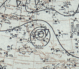 Surface weather analysis of a rare November hurricane over the Atlantic Ocean nearing landfall in Miami, Florida, on November 4, 1935.